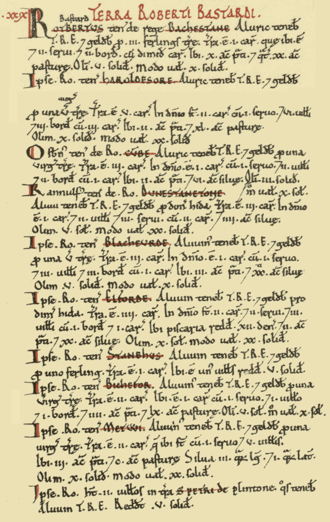 Listing of holdings in Devonshire of Robert Bastard, Domesday Book 1086.